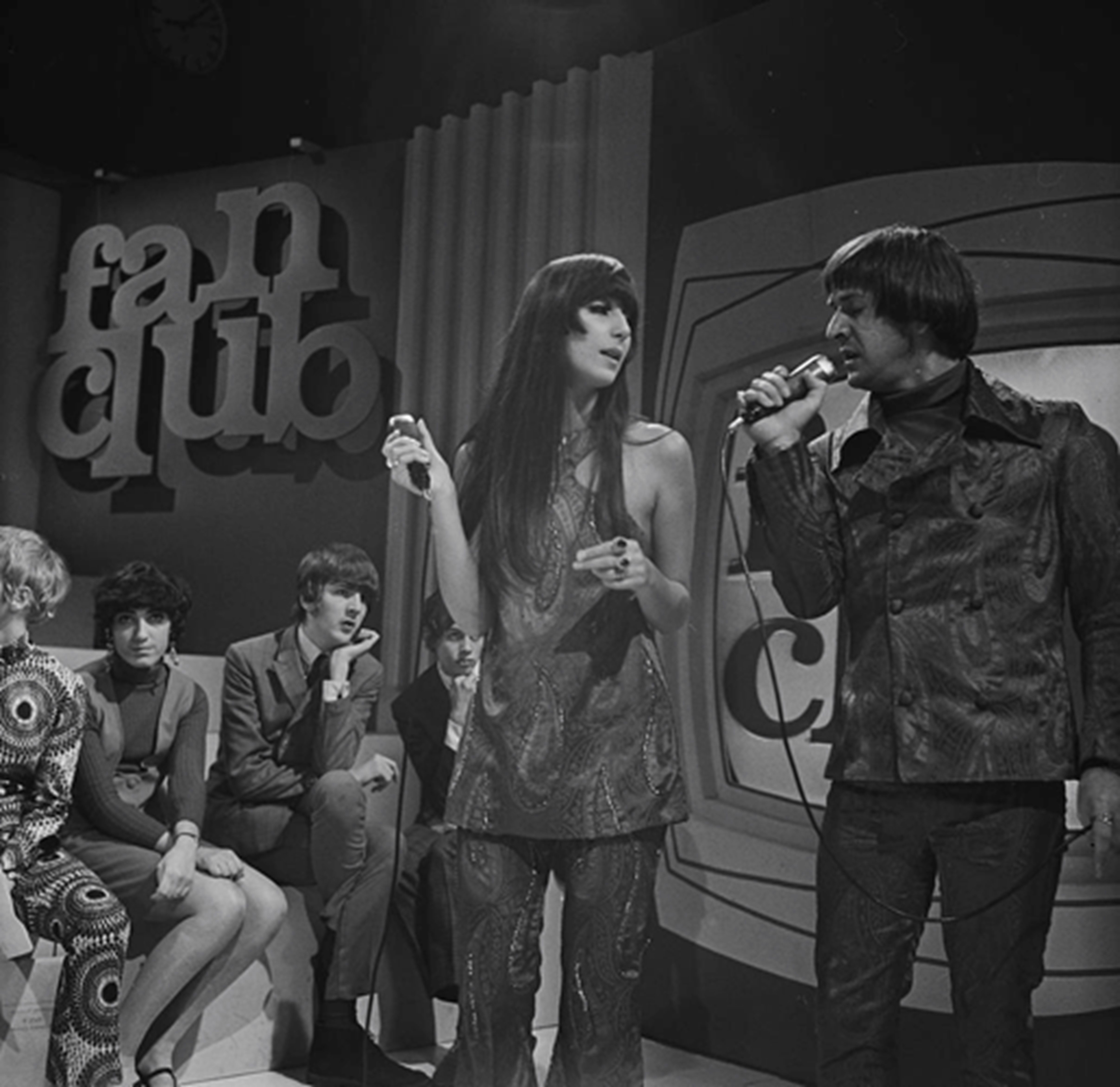 Sonny & Cher performing the song "The beat goes on" on Dutch TV programme Fanclub, 4 February 1967